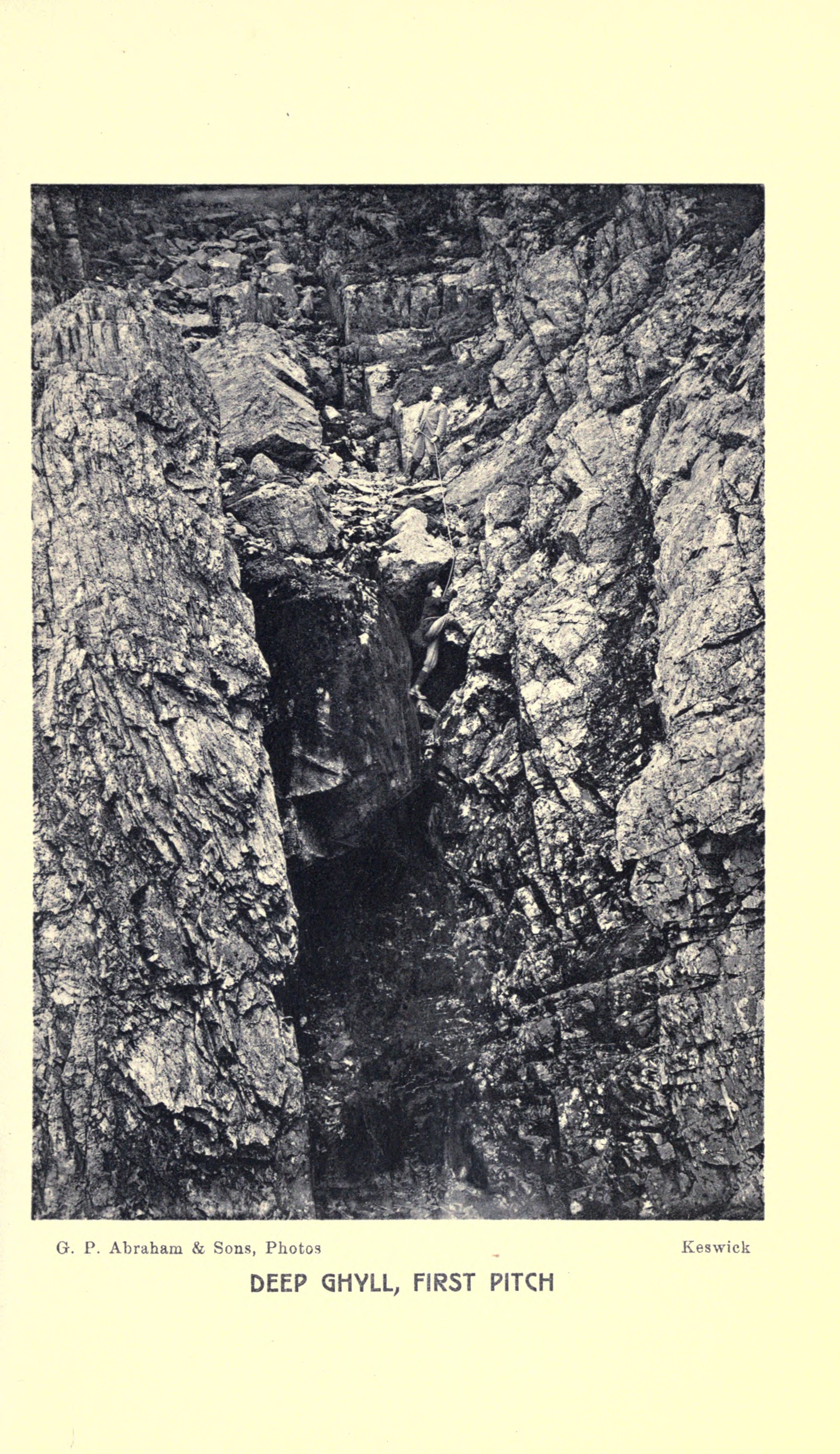 Owen Glynne Jones climbs the first pitch of Deep Ghyll, Sca Fell, English Lake District